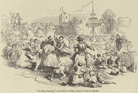 'Keeping Sunday' according to King James's Book of Sports